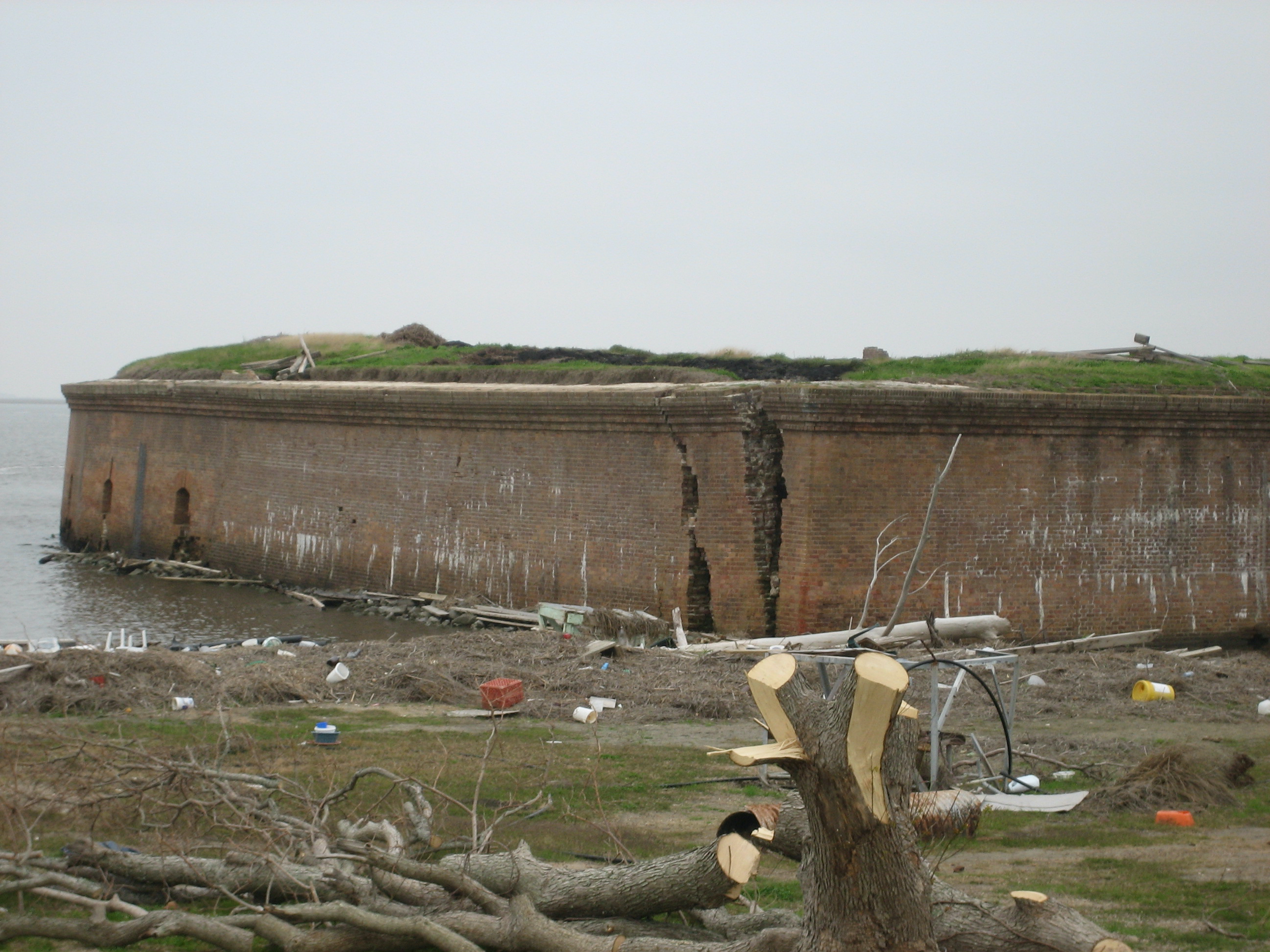 Ruins of Fort Pike, Louisiana. Old landmark fort was damaged by Hurricane Katrina storm surge. Photo by Infrogmation, February 2006